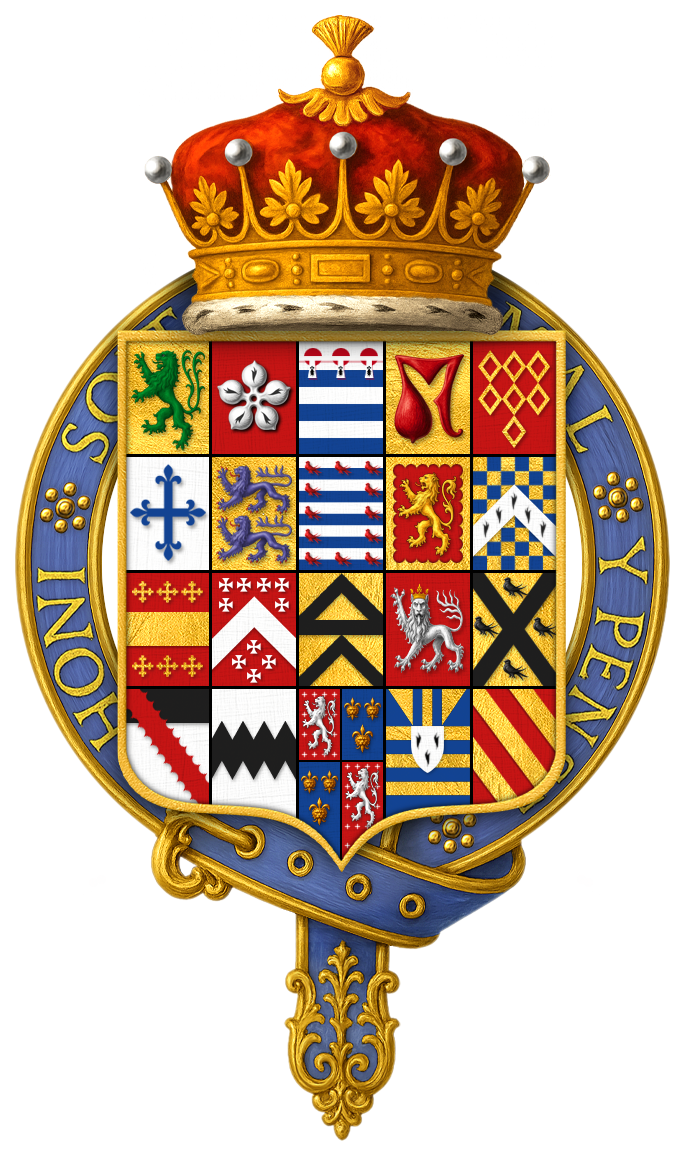 Quartered coat of arms of Sir Ambrose Dudley, 3rd Earl of Warwick, KG Quartering based on the arms of Warwick on his tomb at the Collegiate Church of St. Mary in Warwick.